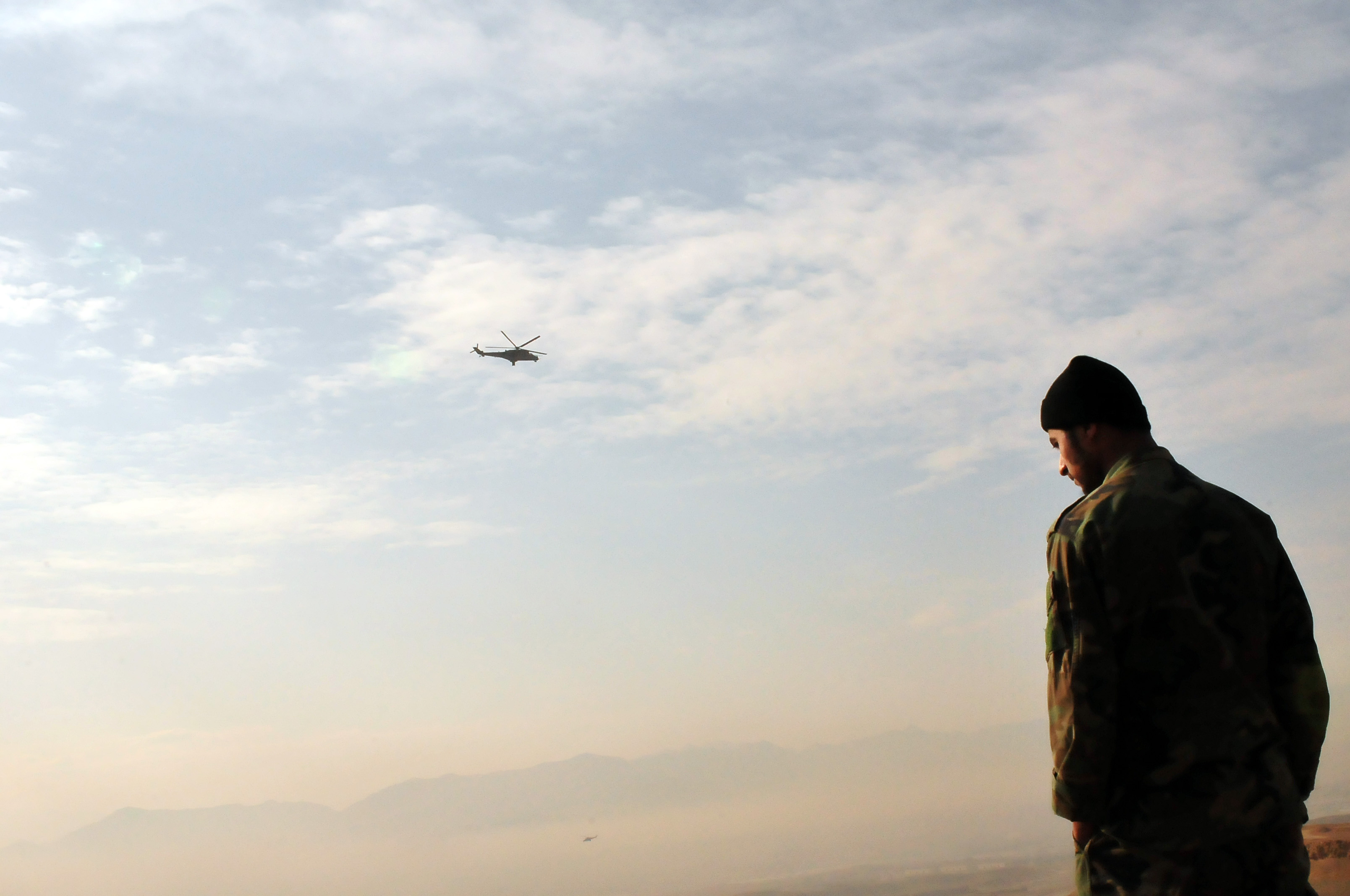 100120-N-6031Q-004 KABUL, Afghanistan -- An Afghan National Army soldier stands overlooking the valley on the outskirts of the city of Kabul as a soviet HIND MI35 attack helicopter patrols the area in preparation for live fire exercises. Live fire exercises are performed weekly in order to train both the helicopter crews as well as students on the ground who communicate ground targets to the helicopters. (US Navy photo by Mass Communication Specialist 2nd Class David Quillen/RELEASED).